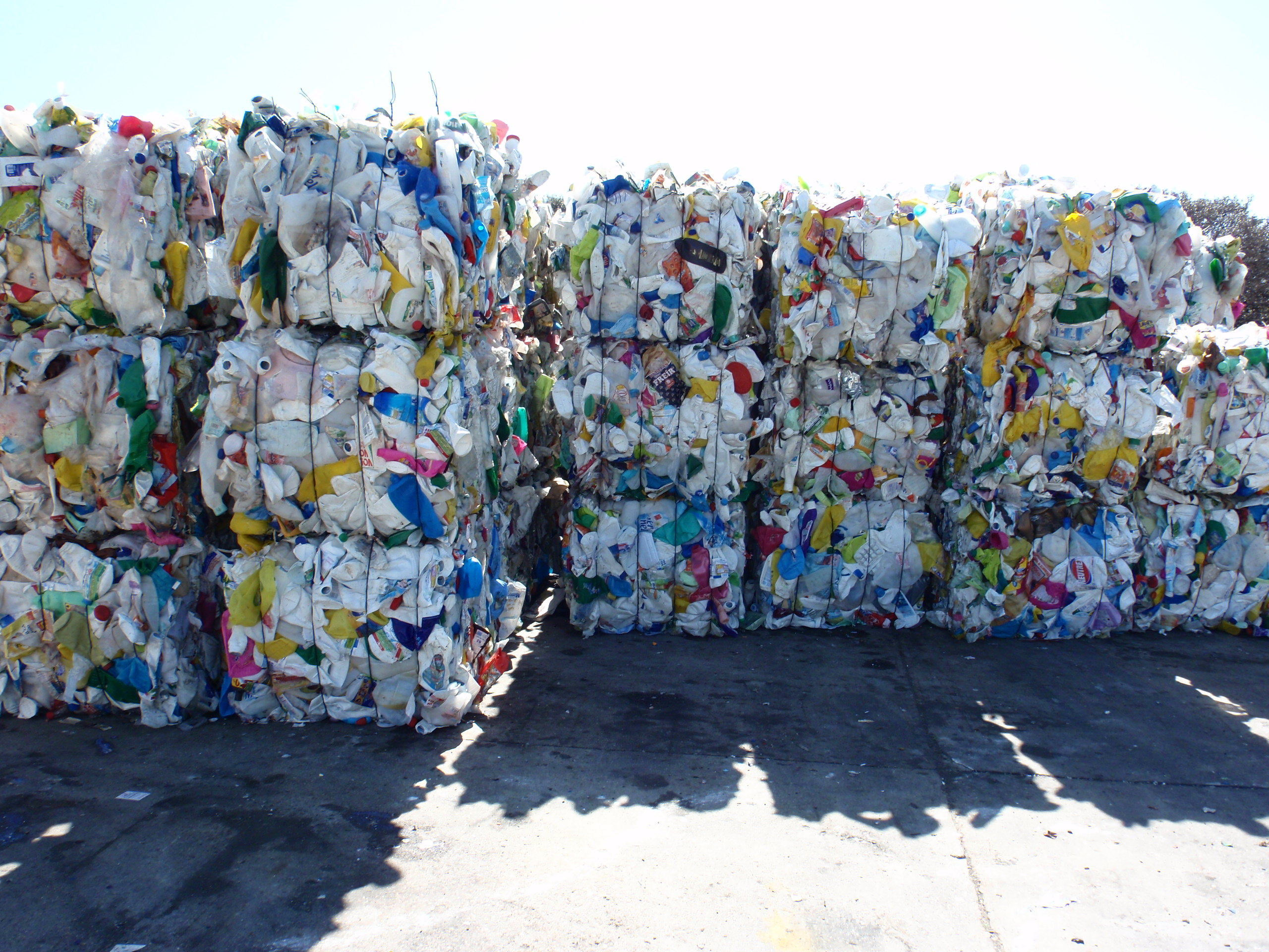 Bales of plastic containers